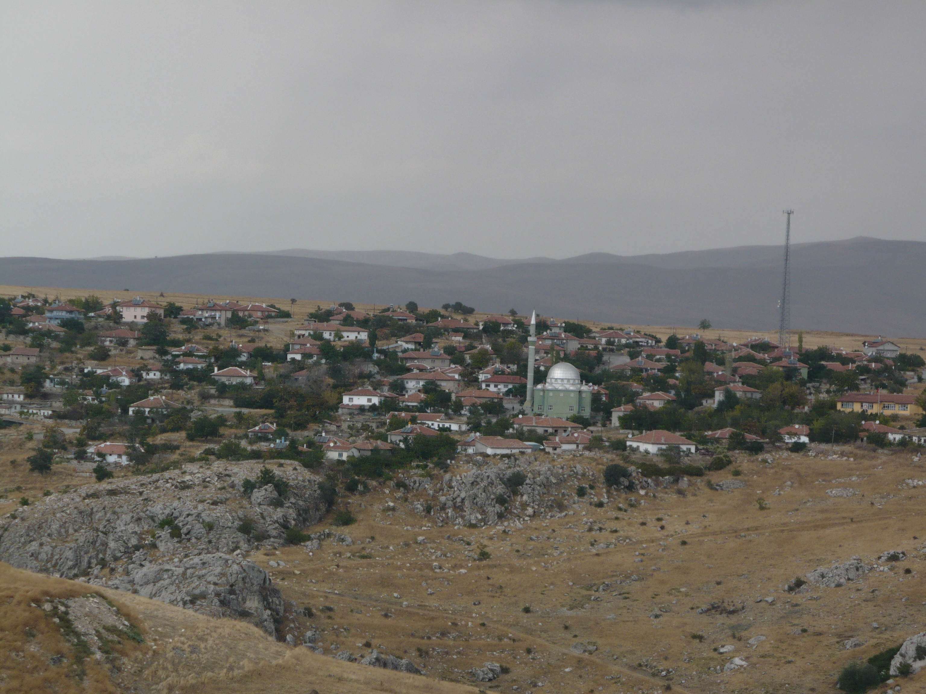 Kalecik is a town and district of Ankara Province in the Central Anatolia region of Turkey.